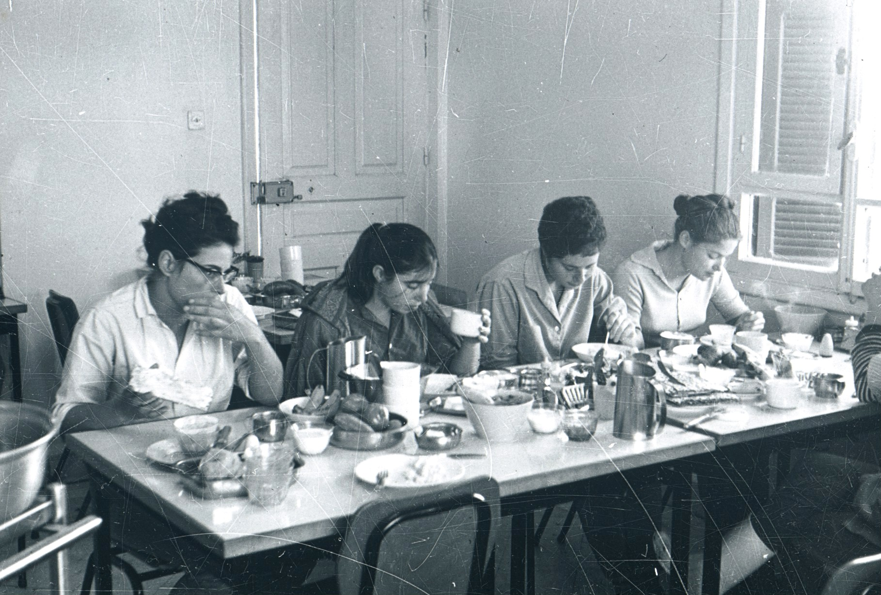 Architecture of the Golan Heights